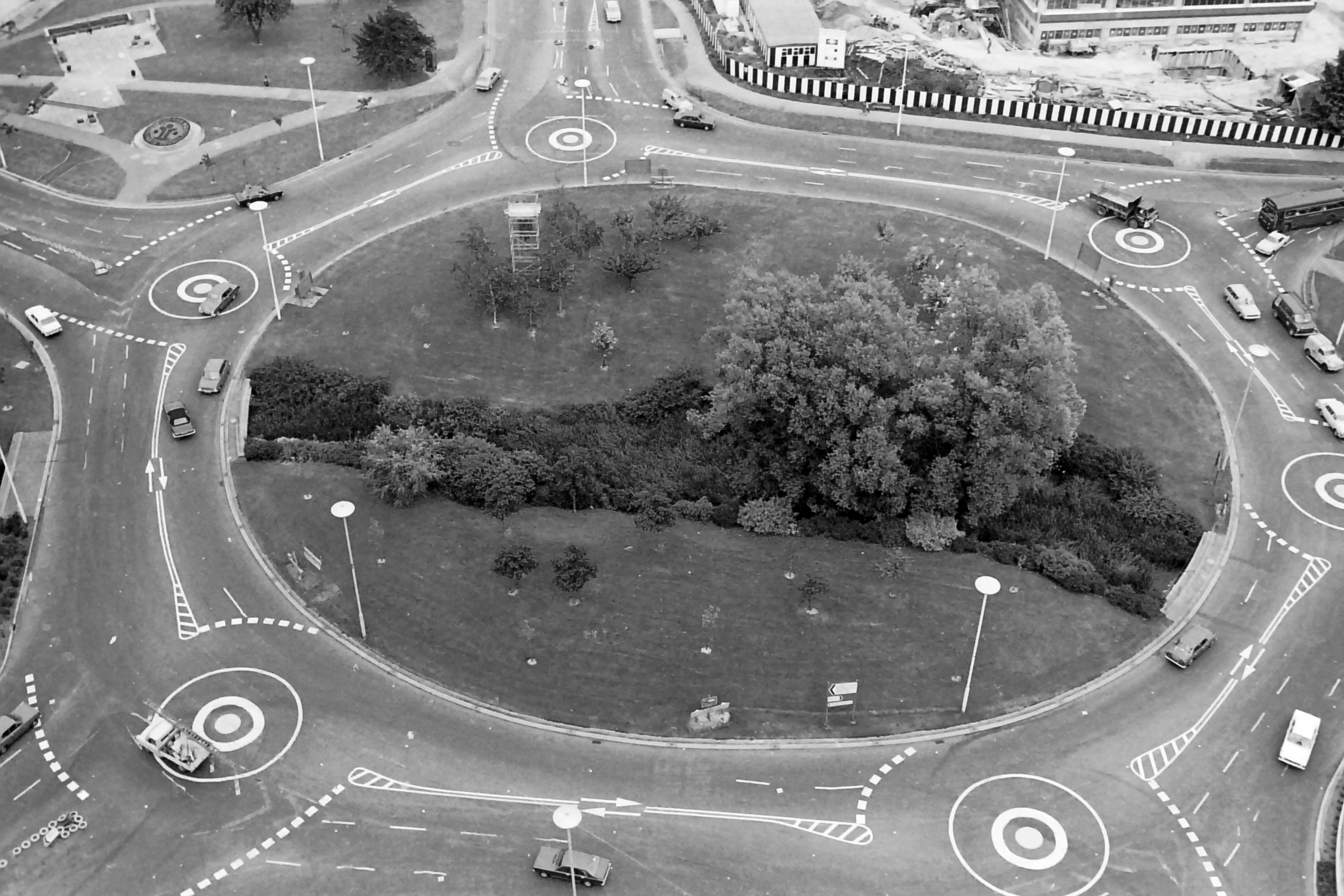 This picture shows the "magic roundabout in Hemel Hempstead, UK. The picture was taken shortly after the new layout was first opened. The picture is interesting not just as a historic record, but it also shows a common problem, traffic in the roundabout travelling in the wrong direction, in the wrong lane. On the center left of the picture there are two cars in the same lane. The car with the black roof is travelling in the wrong direction, narrowly avoiding a crash.